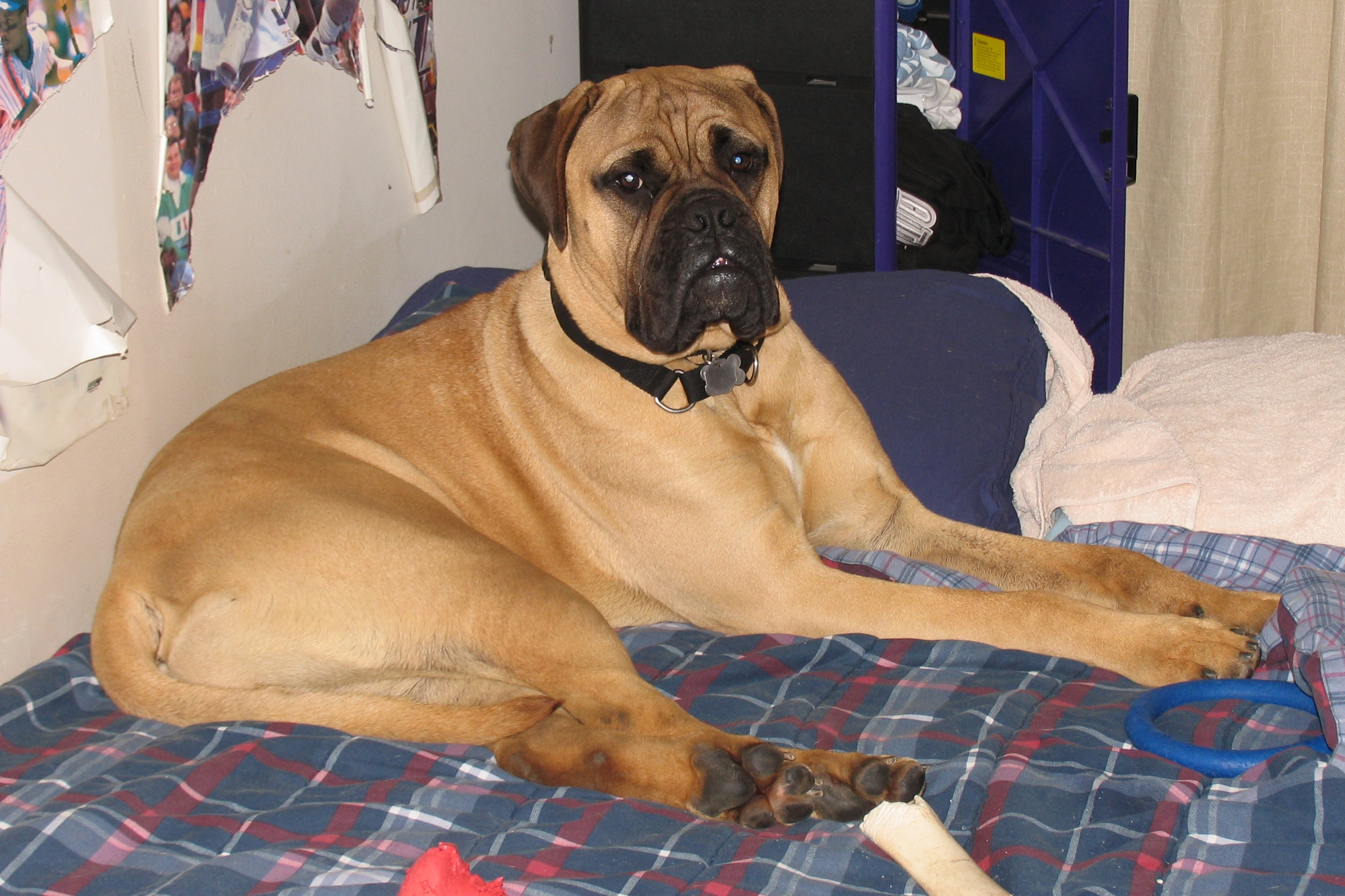 Ferguson, Fawn Bullmastiff